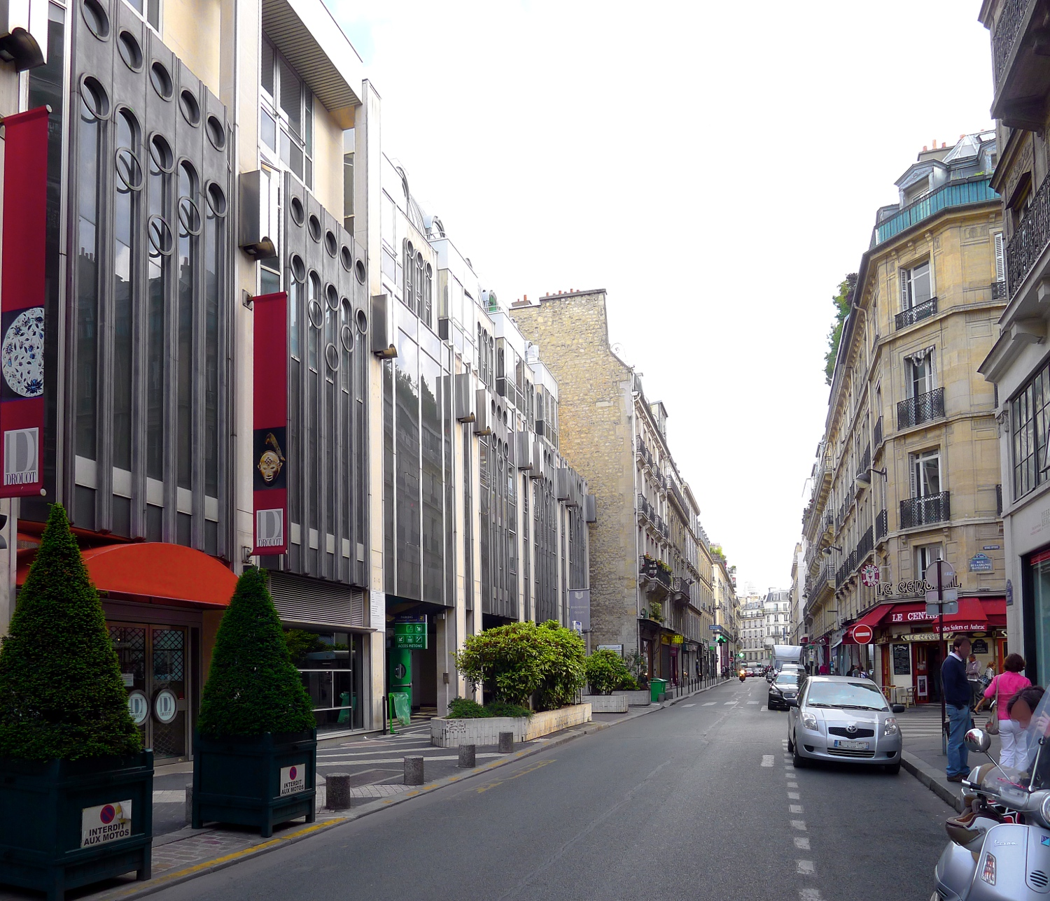 Drouot street - Paris